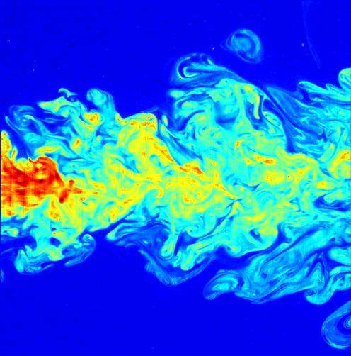 This picture is a false-color image of the far-field of a submerged turbulent jet, made visible by means of laser induced fluorescence (LIF).